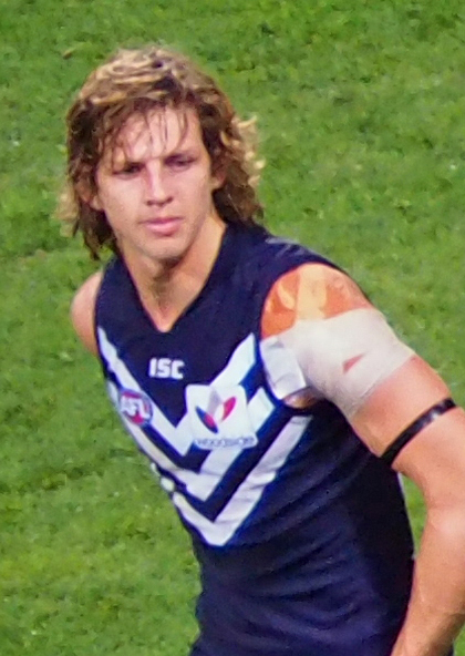 Nathan Fyfe playing for Fremantle Football Club at Patersons Stadium, Round 9, 17 May 2014